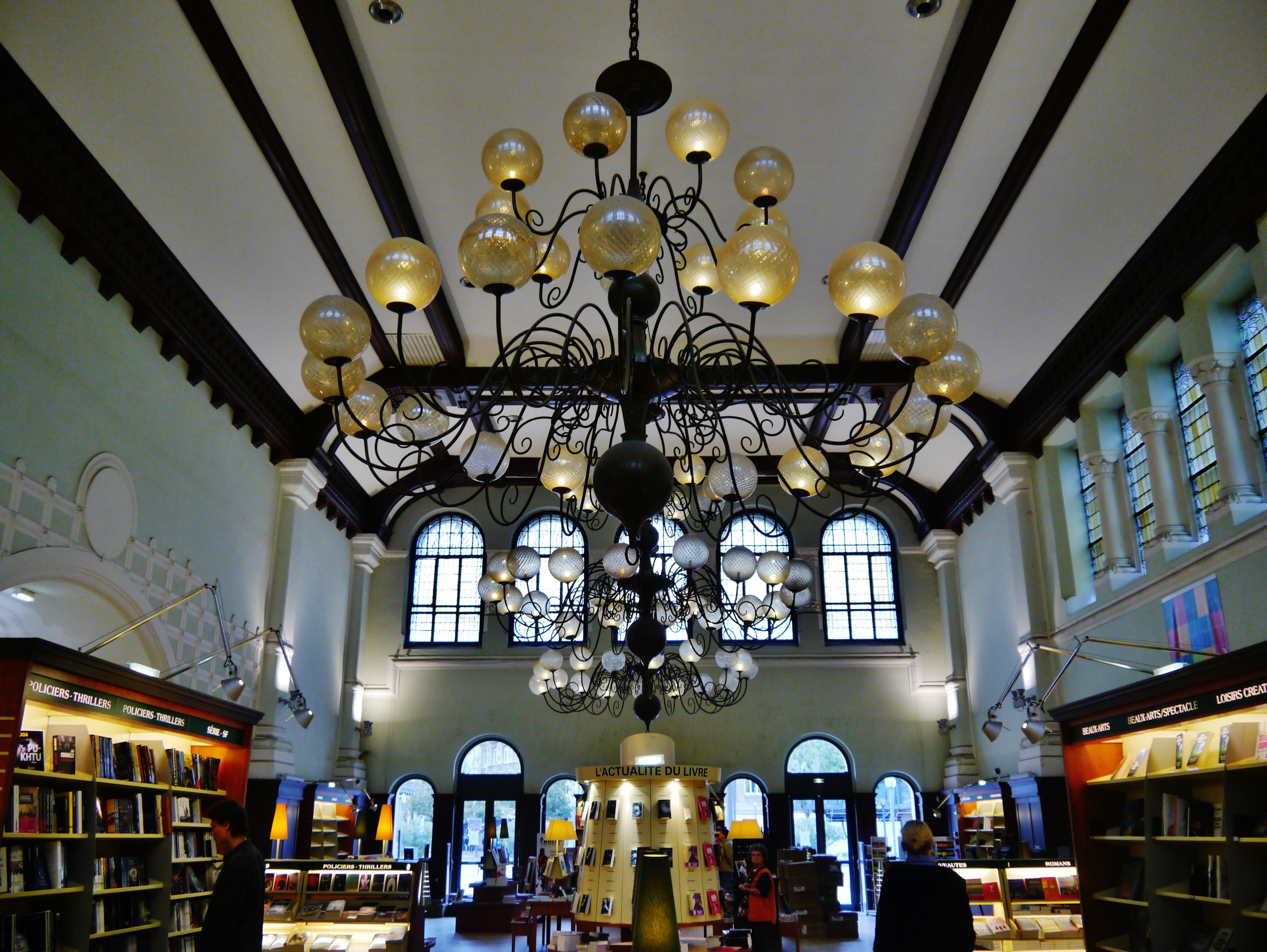 Book Shop inside Metz Central Station, Metz, Département of Moselle, Region of Lorraine (now Grand Est), France